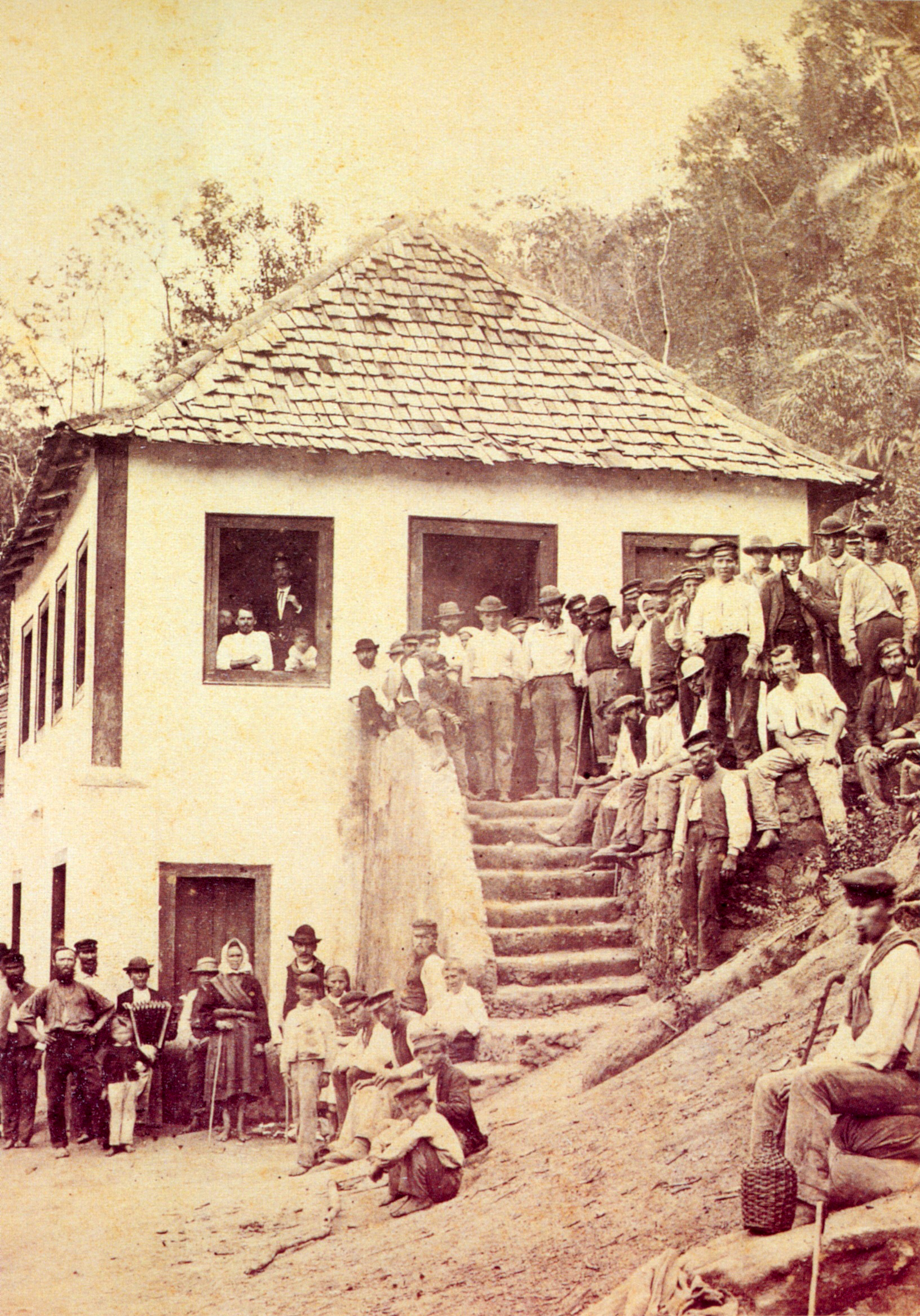 German and Luxembourger immigrants in Santa Leopoldina colony in Espírito Santo province, Brazil, 1875.